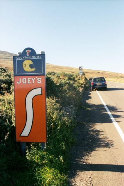 Joey's What was the 26th mile post was renamed after Joey Dunlop